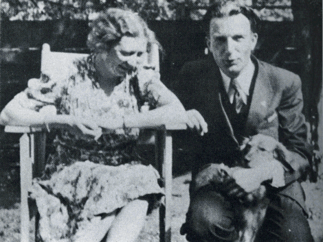 Margot Warnsinck and George Kettmann jr.. Photograph made between 1932 and 1940.